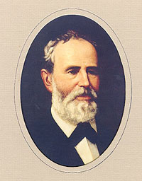 Elisha Marshall Pease, 5th and 13th Governor of the State of Texas.